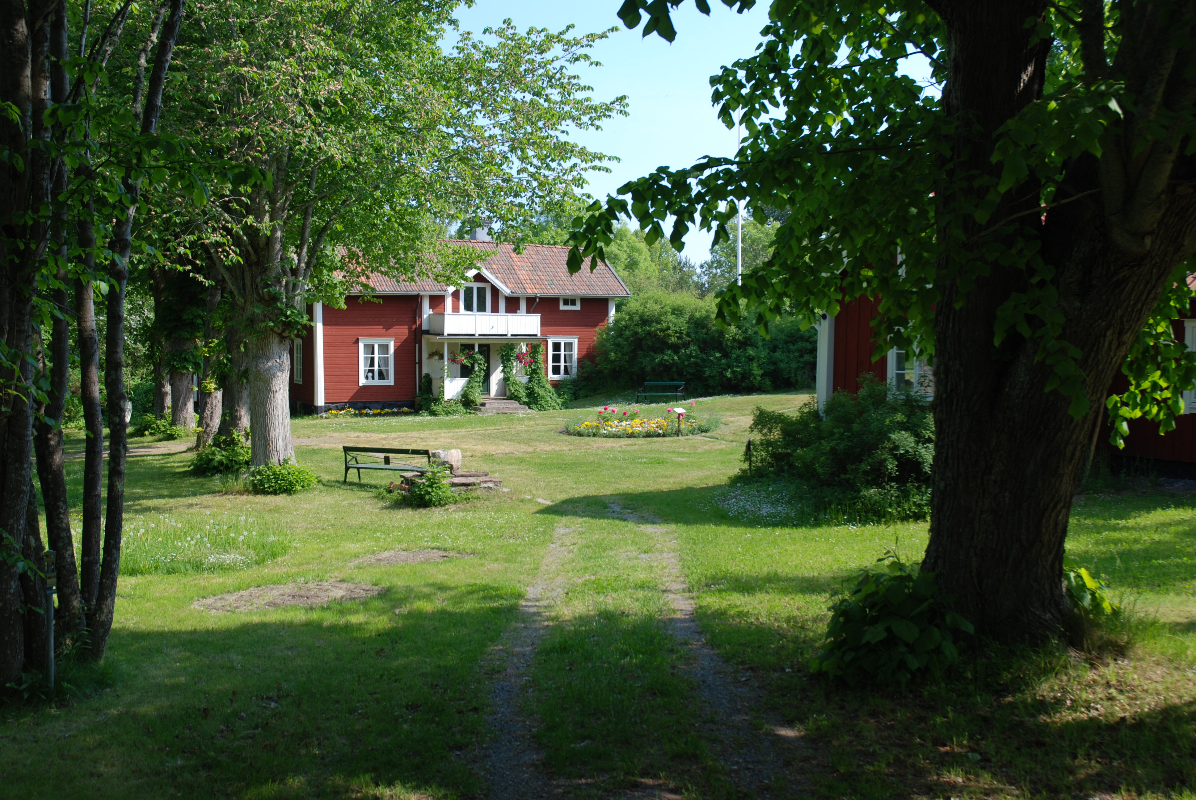 The Albert Engström Museum at Grisslehamn, Sweden